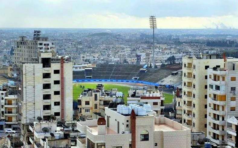 Bassel Assad Stadium, Baba Amr, Homs, Syria.